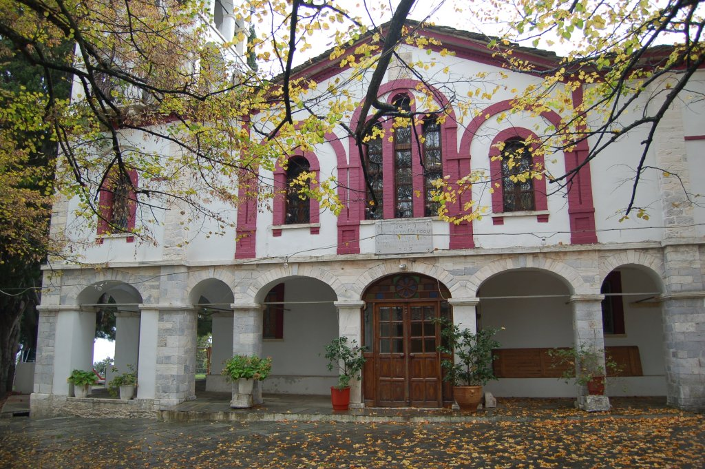 Agia Triatha in Mouresi (Pelion/Pilion,Magnesia,Greece/Griechenland)